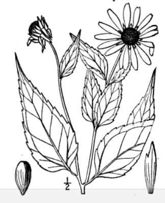 Botanical illustration of Helianthus decapetalus from 1913. I took a screen shot of the original, because the version uploaded to the USDA website had been drawn on.